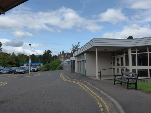 Looking from Crieff Hospital towards the ambulance station